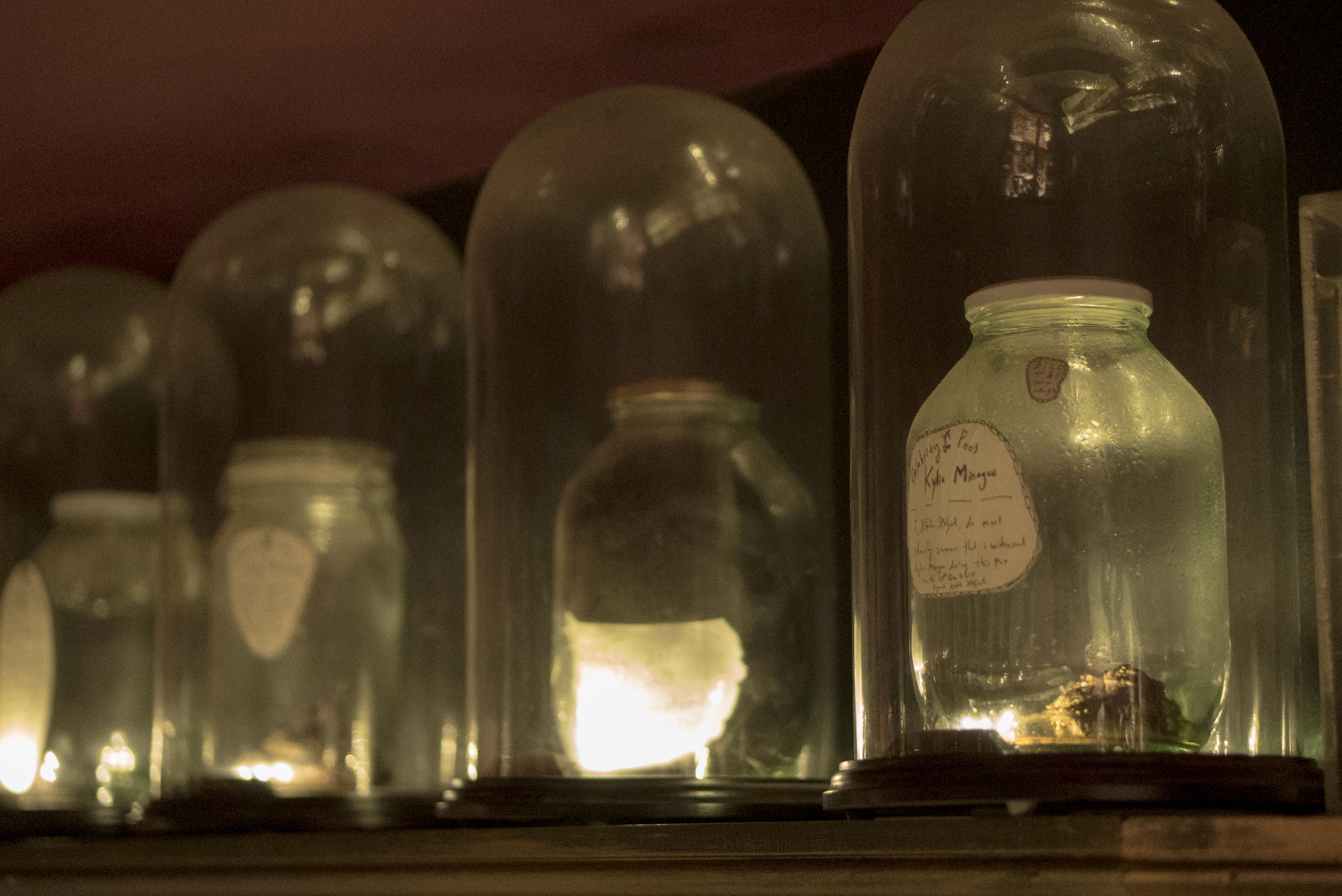 Jars of celebrity poo at the Viktor Wynd Museum.